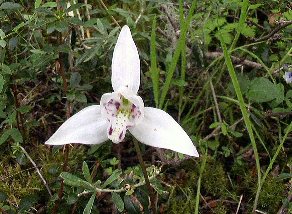 Codonorchis_lessonii